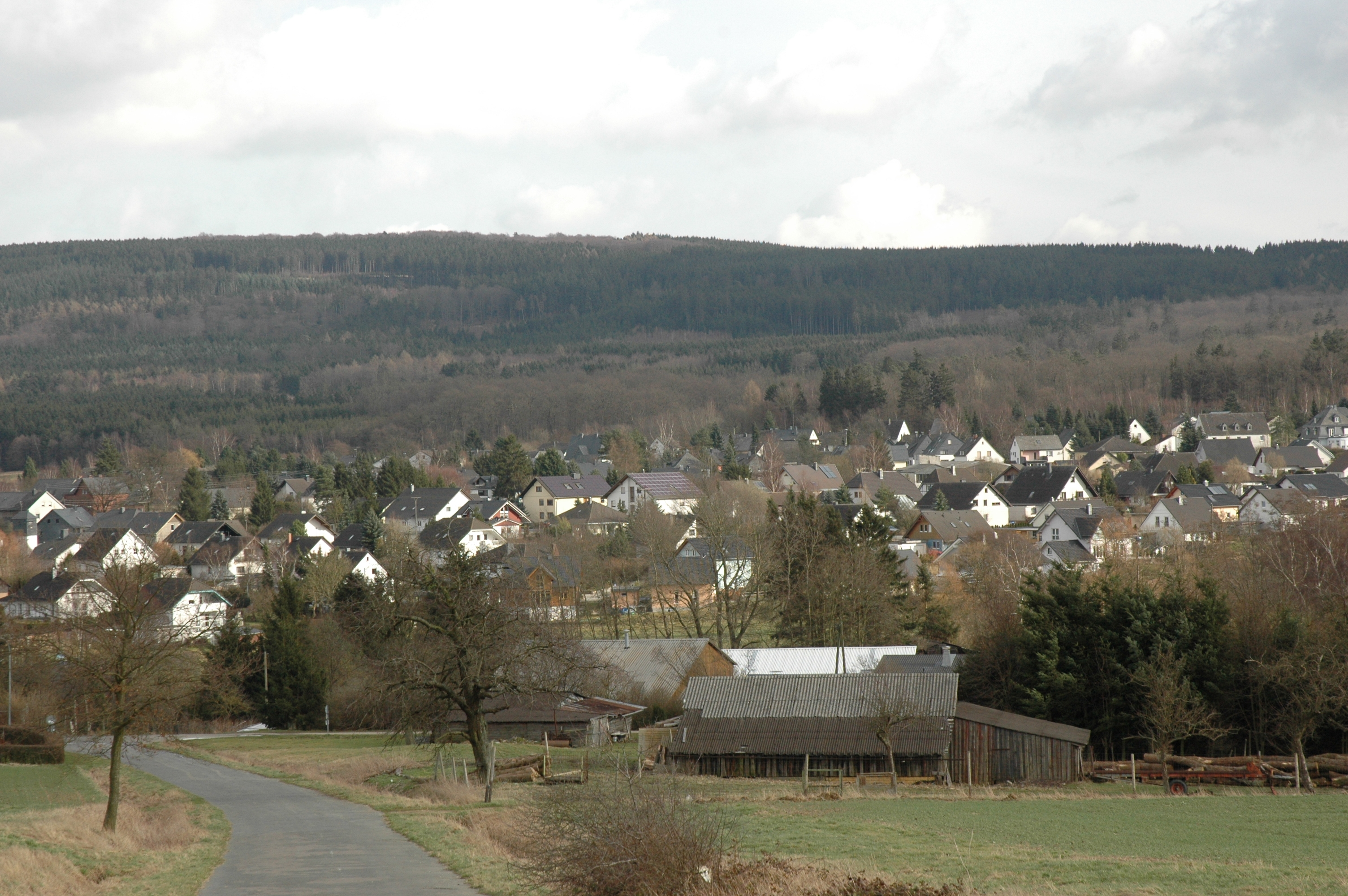 Ellern, a village in the Hunsrück landscape, Germany.